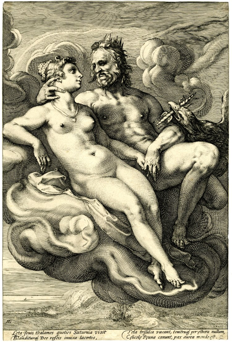 Jupiter and Juno. The naked couple seated in the clouds, Jupiter wearing a crown, an eagle holding a thunderbolt at right; after Hendrik Goltzius